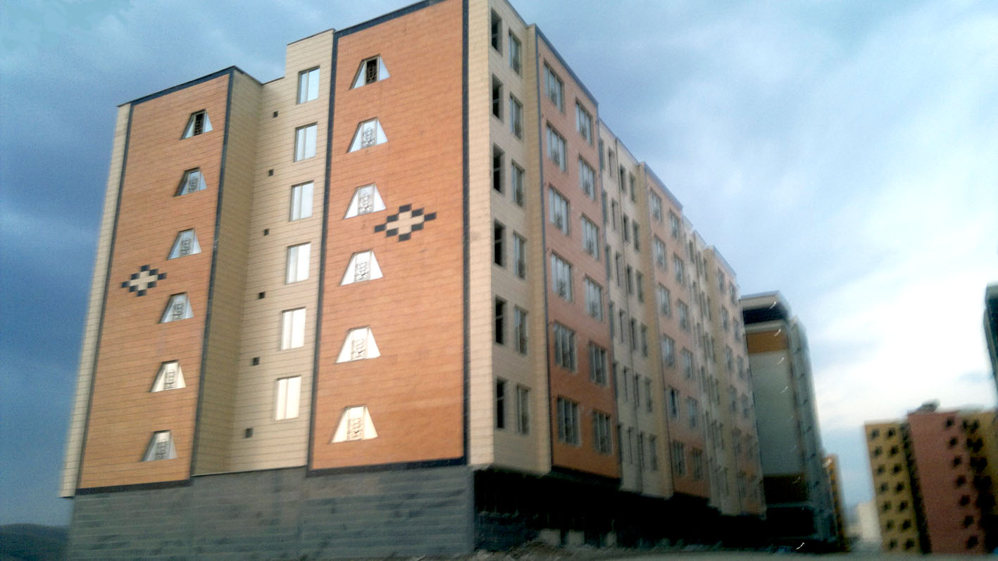 Modern residential blocks of apartments built in Borujerd as a part of 6300+ unit constructions under Maskan-e Mehr national housing project.